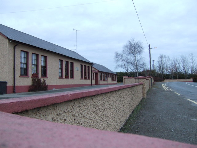 Oilgate National School The village is spelled locally, Oylegate. This scene is east of the village towards Redgate.